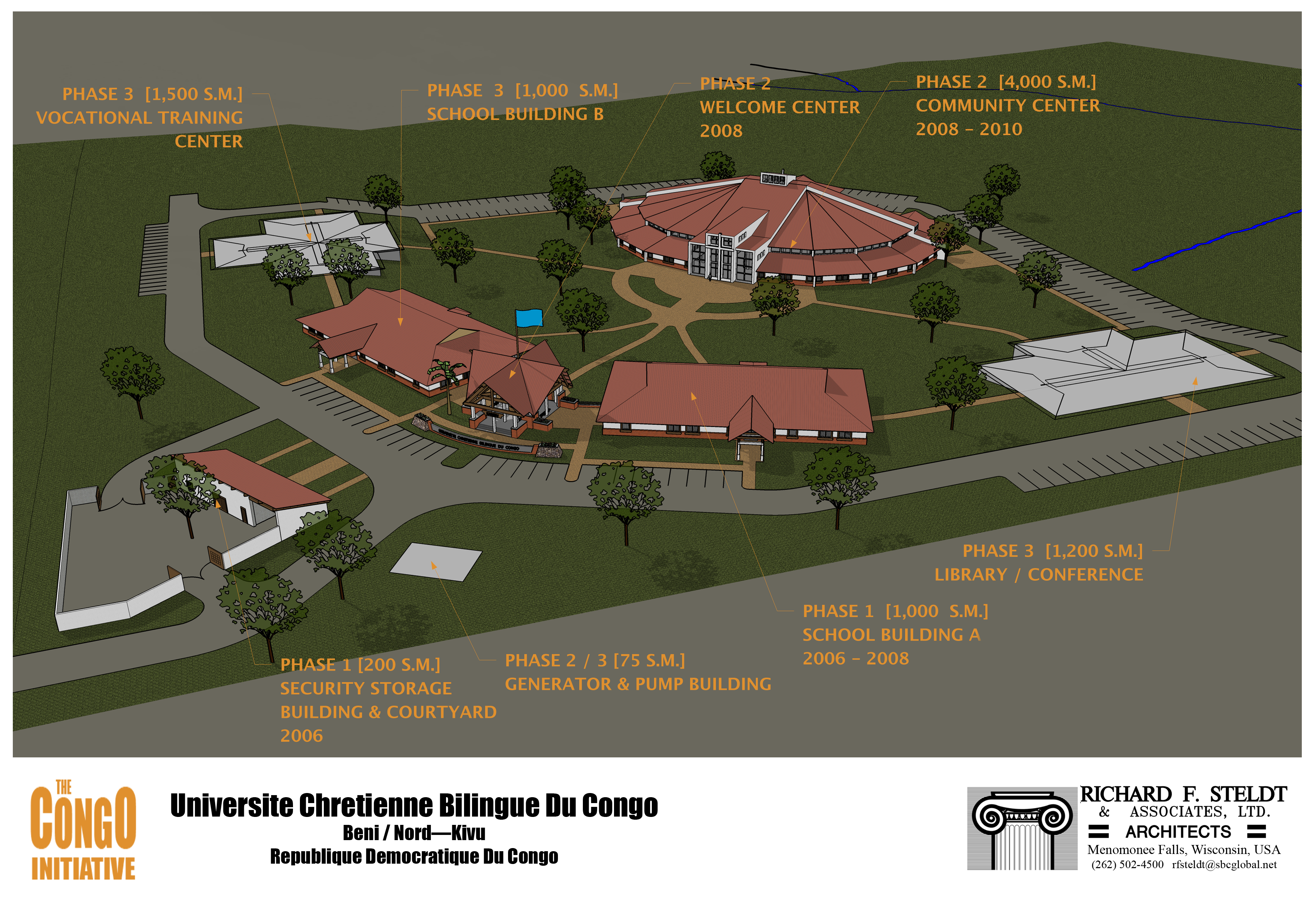 Plans for future buildings of UCBC